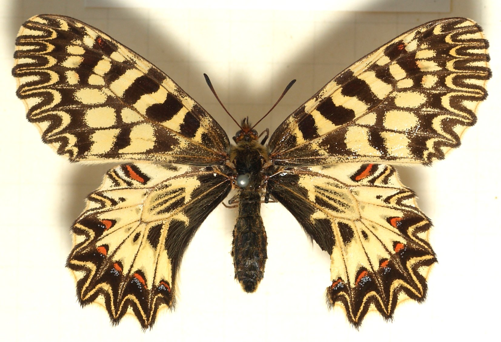 Zerynthia polyxena